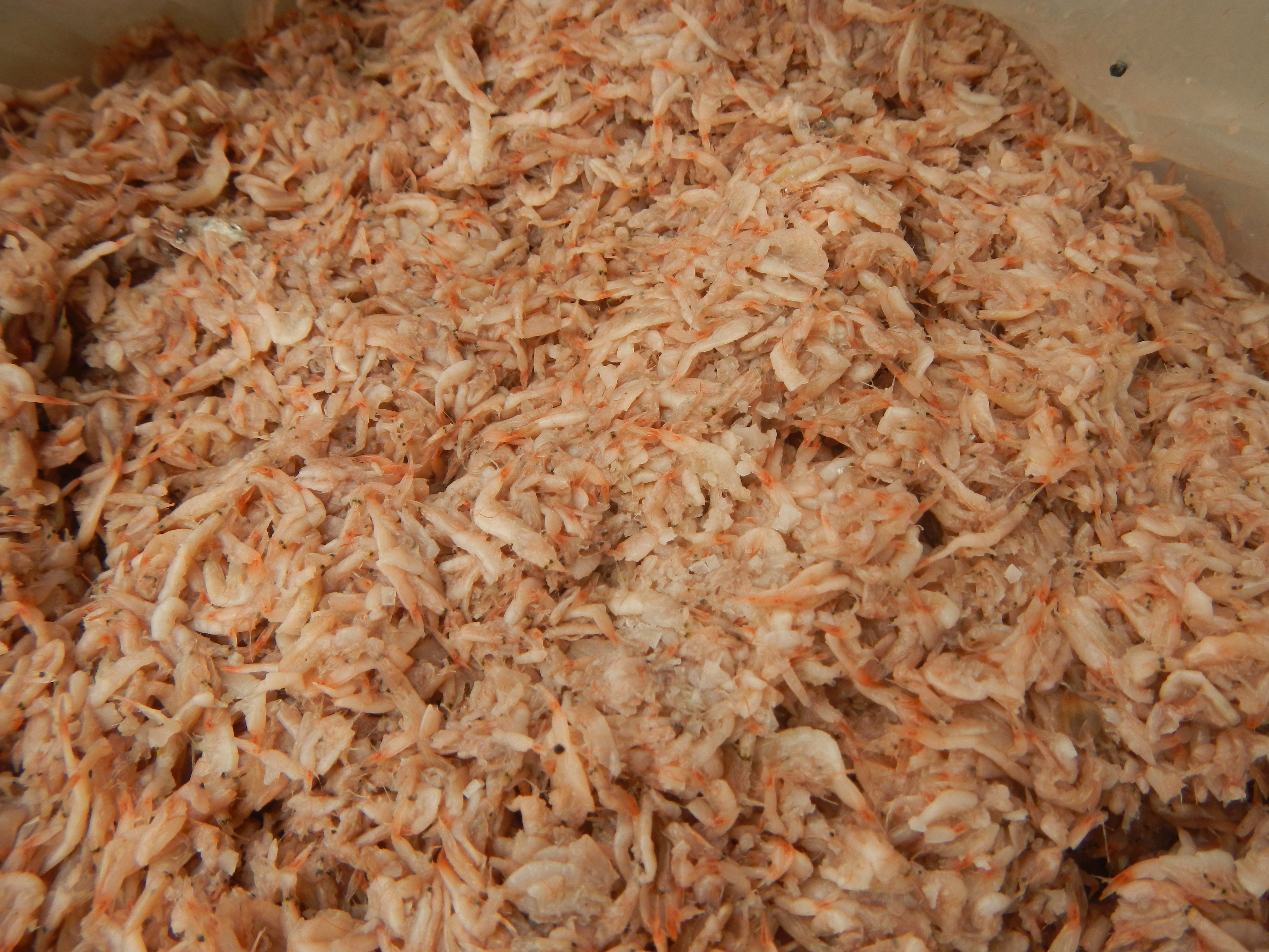 Pamarawan, Malolos City, Bulacan River District Most beautiful Island in the Sun Pamarawan River Barangay Pamarawan 14°45'47"N 120°49'1"E Isla Pamarawan, (beside Kaliligawan, on one side, and bounded on the other by Masile, Babatnin, Atlag, Bagna and Panasahan, Fish Port, Malolos City, Bulacan from Atlag Bridge K0042+268, along the Malolos-Paombong-Hagonoy-Bulacan-Obando Provincial Road from MacArthur Highway (Malolos City section) (Note: Judge Florentino Floro, the owner, to repeat, Donor Florentino Floro of all these photos Judge Floro hereby donate gratuitously, freely and unconditionally all these photos to and for Wikimedia Commons, exclusively, for public use of the public domain, and again without any condition whatsoever).